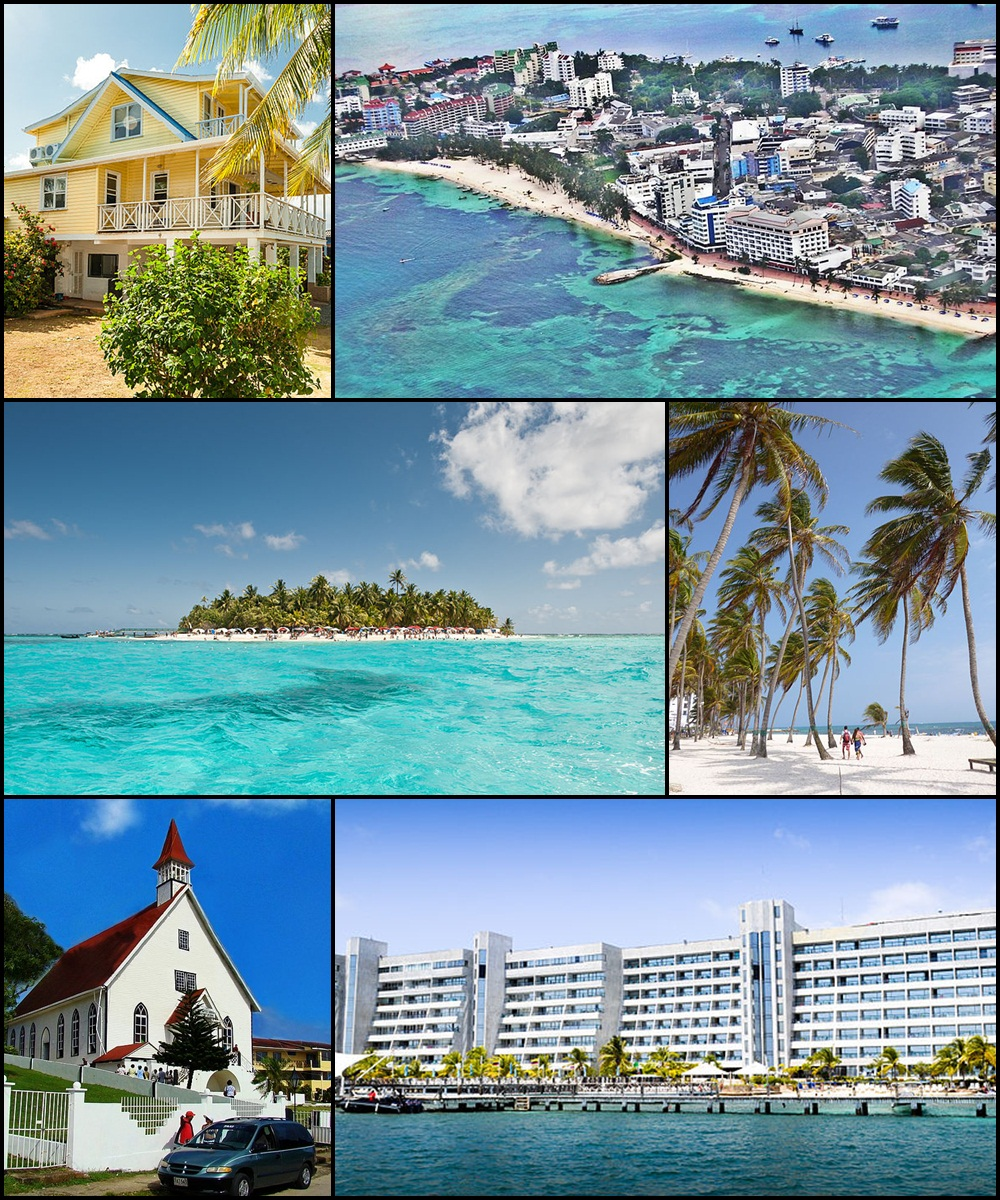 Photo montage of the city of San Andrés (island),Colombia.